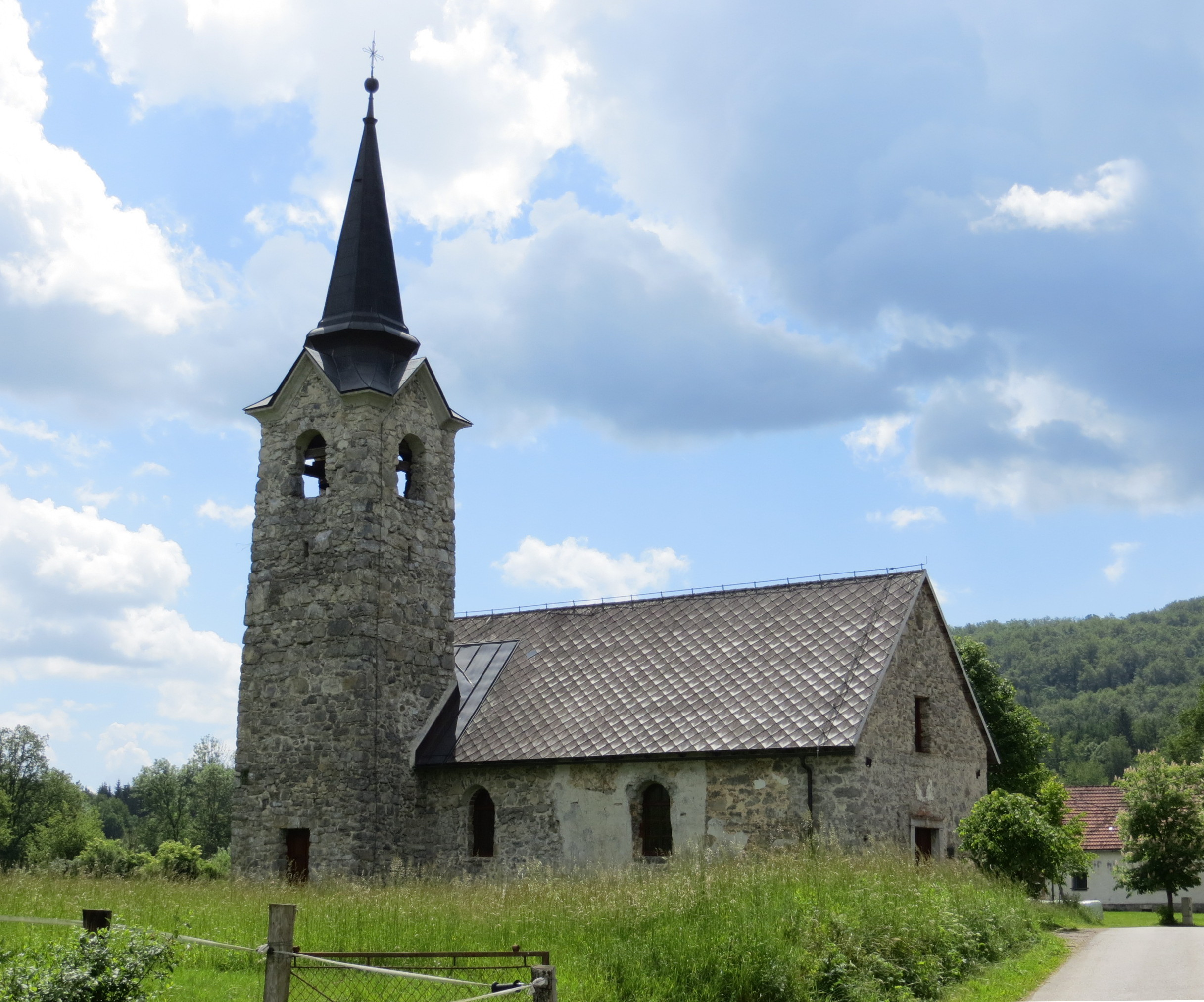 Saint Michael's Church in Polom, Municipality of Kočevje, Slovenia